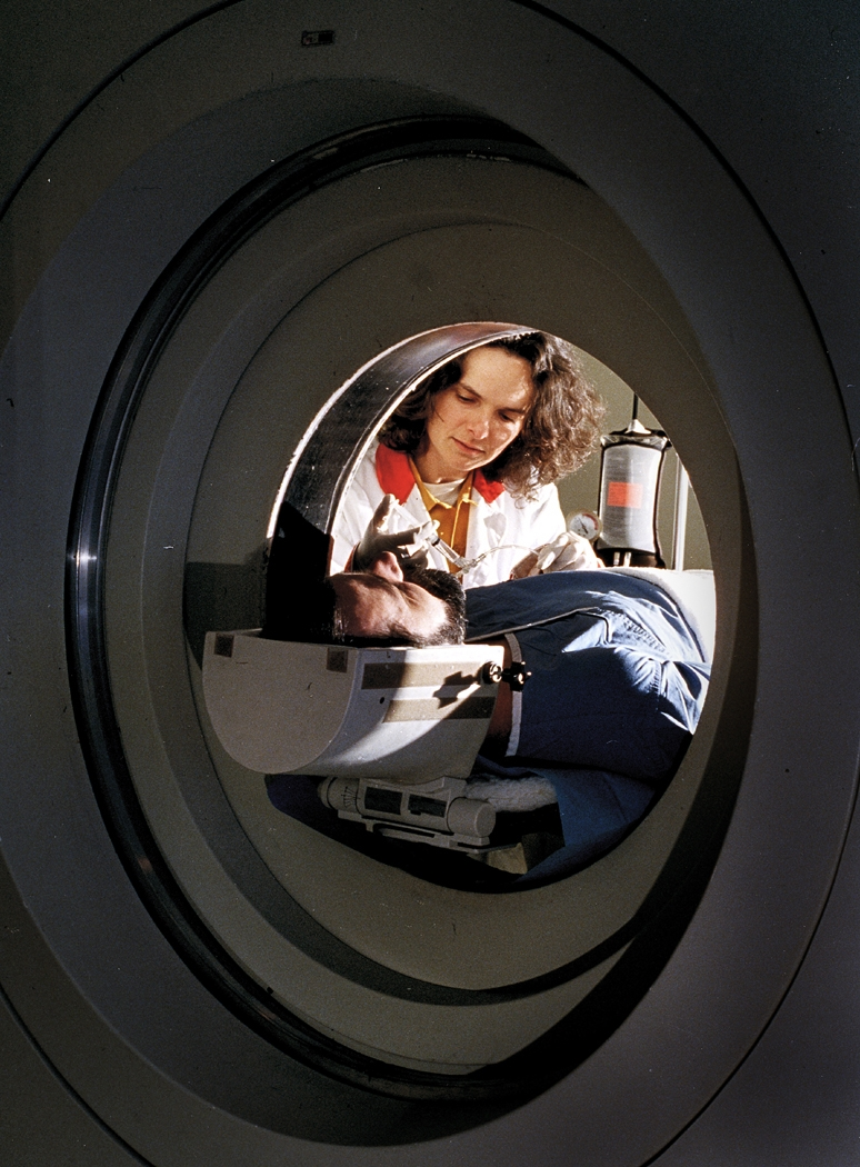 Dr. Nora Volkow with a subject lying down in the PET scanner.